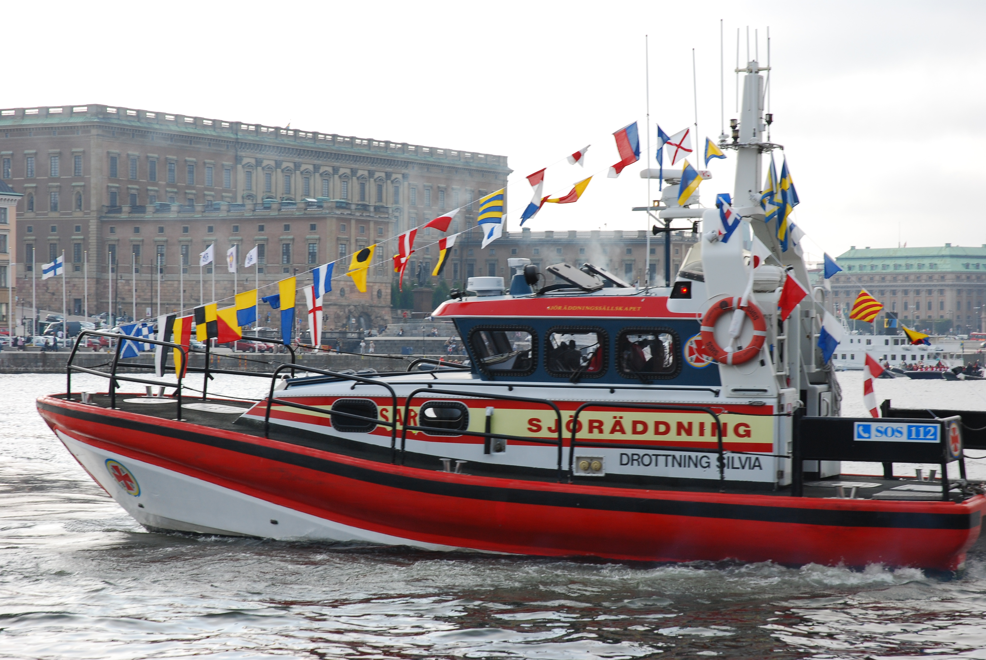 SSRS räddningsbåt Drottning Silvia framför Stockholms slott. Swedish rescue vessel Drottning Silvia (Queen Silvia) in front of the Royal Castle in Stockholm. Drottning Silvia is stationened at Ornö in the archipelago of Stockholm. She is one of the mainstay Victoria class rescue boats of SSRS, the Swedish Sea Rescue Society, water jet propulsed, 12 m long, deplacement of 12 tons, 36 knots maximum speed.